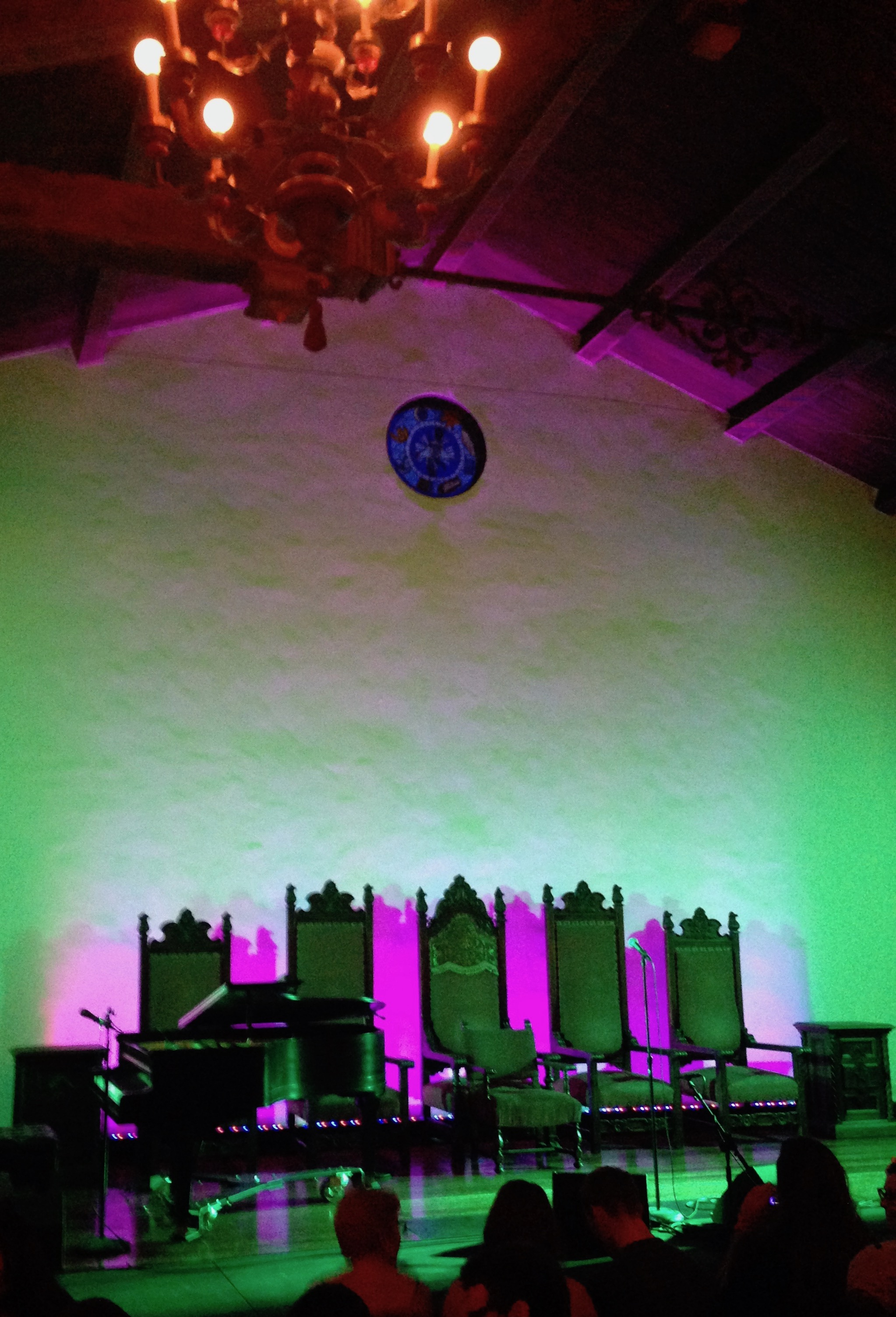 Stage in the Hollywood Forever Cemetery Masonic Lodge